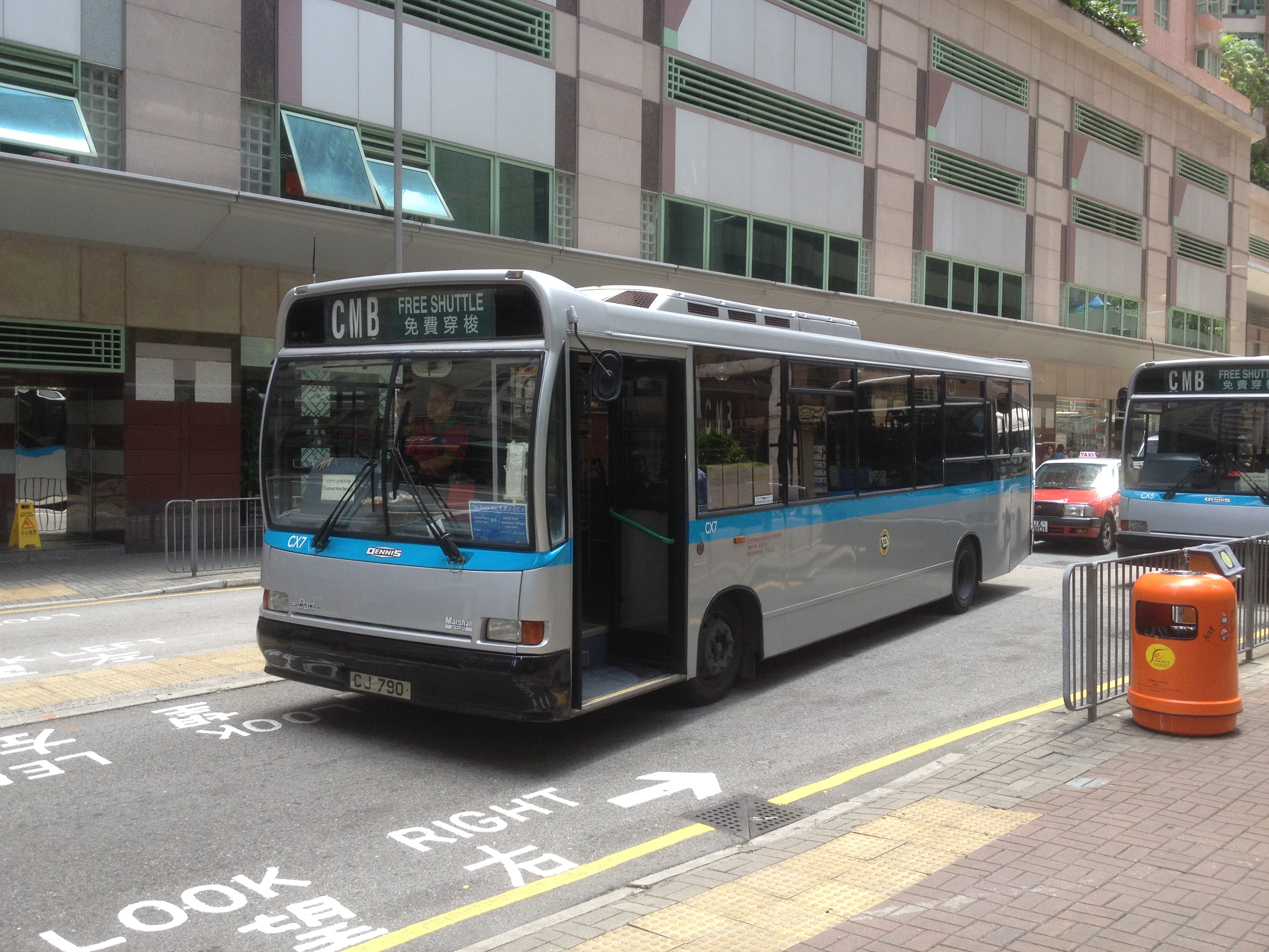 This photo is taken in North Point.